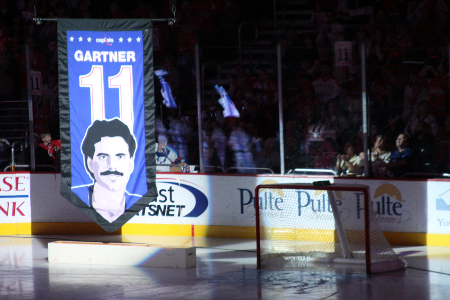 The Washington Capitals raise Gartner's number to the rafters